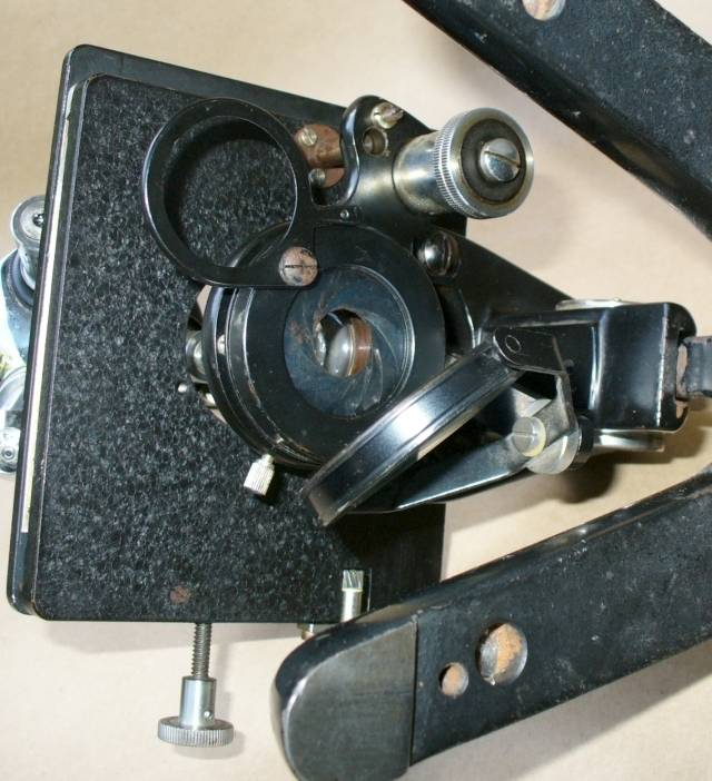 Microscope.